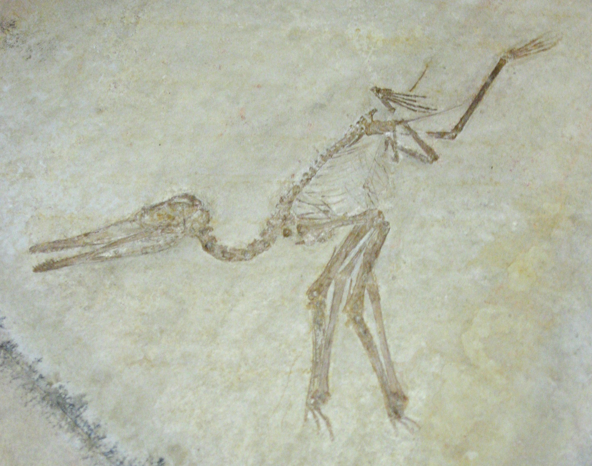 Aurorazhdarcho micronyx (specimen formerly classified as Pterodactylus longirostris) in Exposition temporaire: Perles